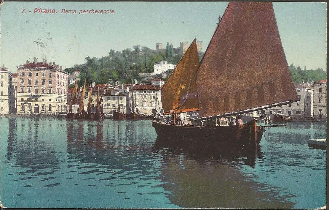 Postcard of Piran.